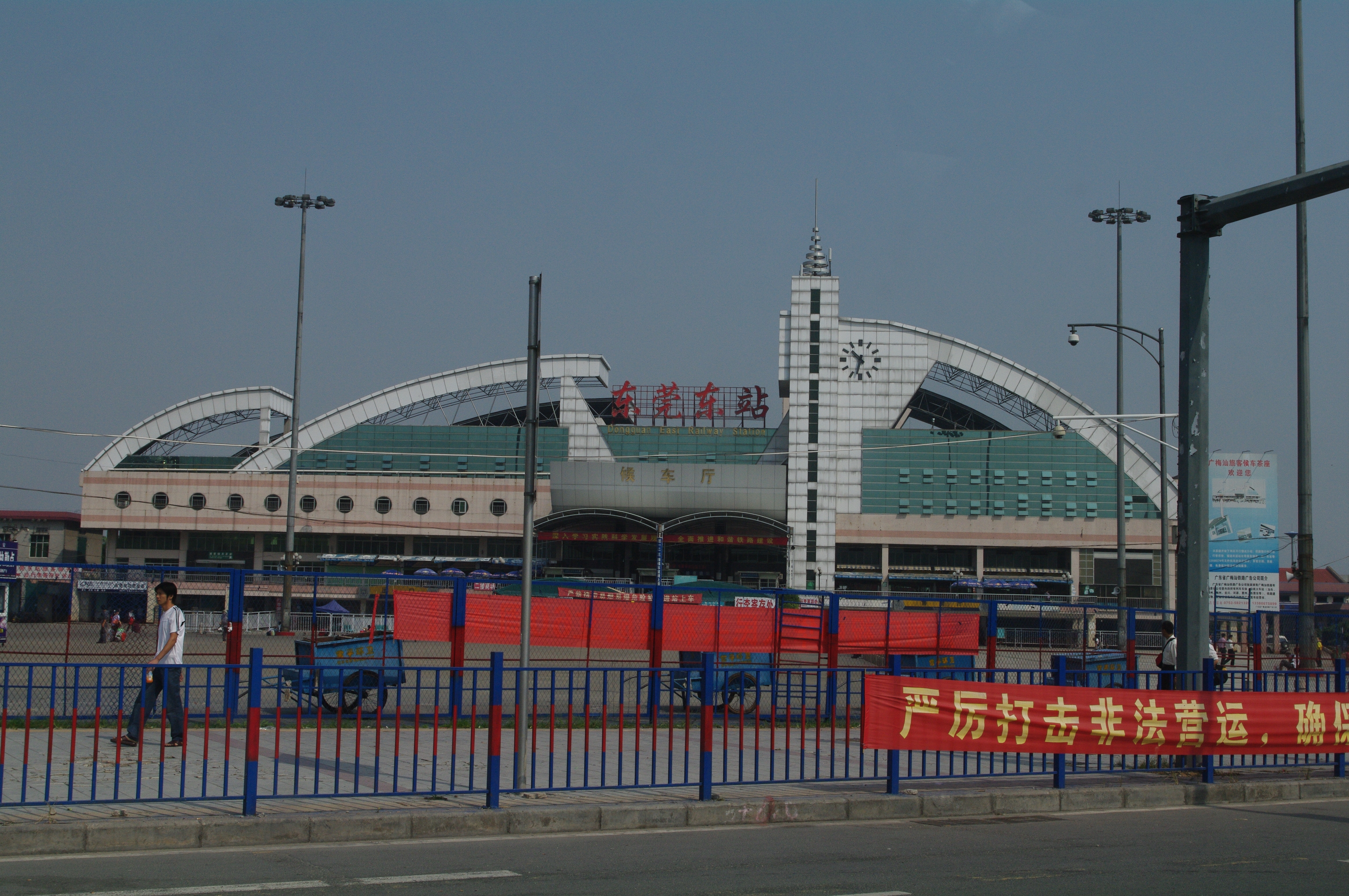 exterior of DongGuan East Railway Station in ChangPing Town Dongguan City, Guandong Provience, China